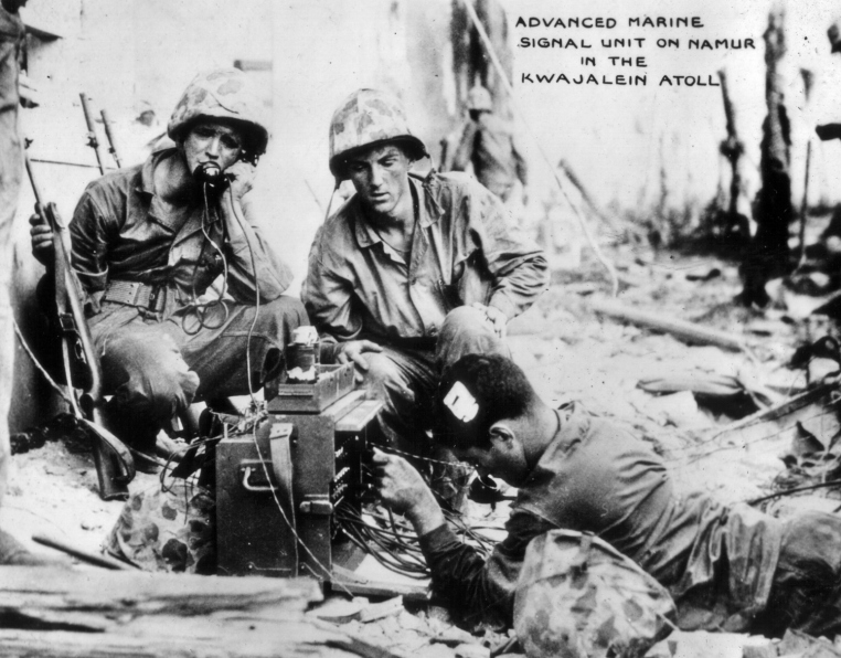 Radio Operators from 3rd Battalion, 24th Marines, under fire on Roi Namur, Pacific Islands, World War II.